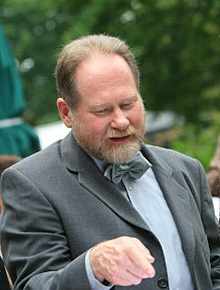 Ulrich Gollmer 2009